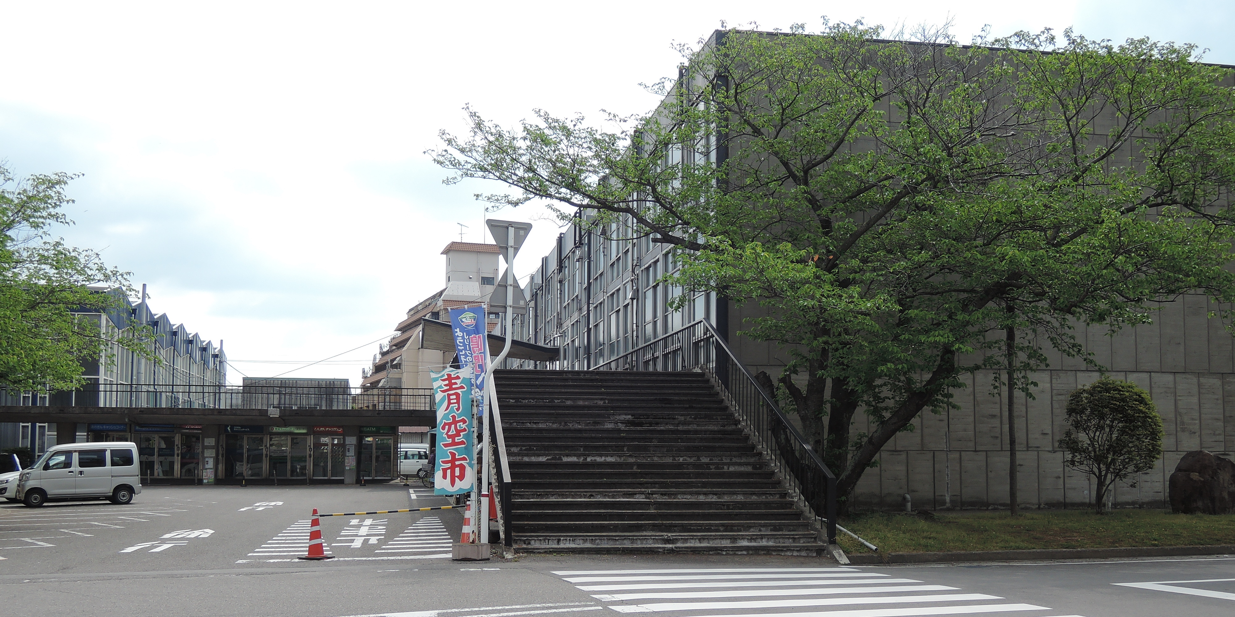 Naruto city hall,Tokushima prefecture,Japan